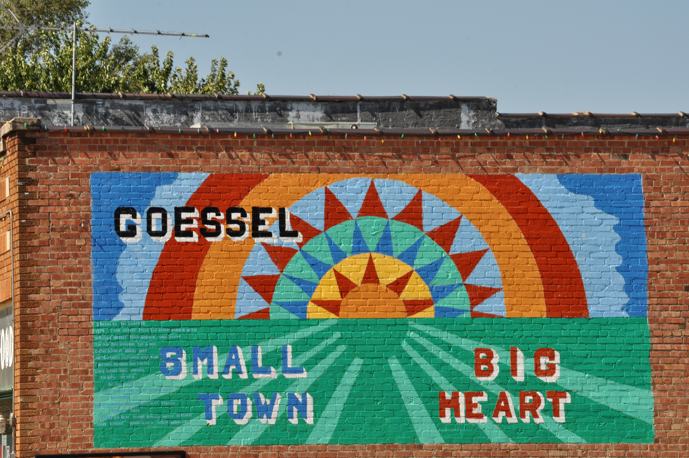 Mural in Downtown Goessel, Kansas